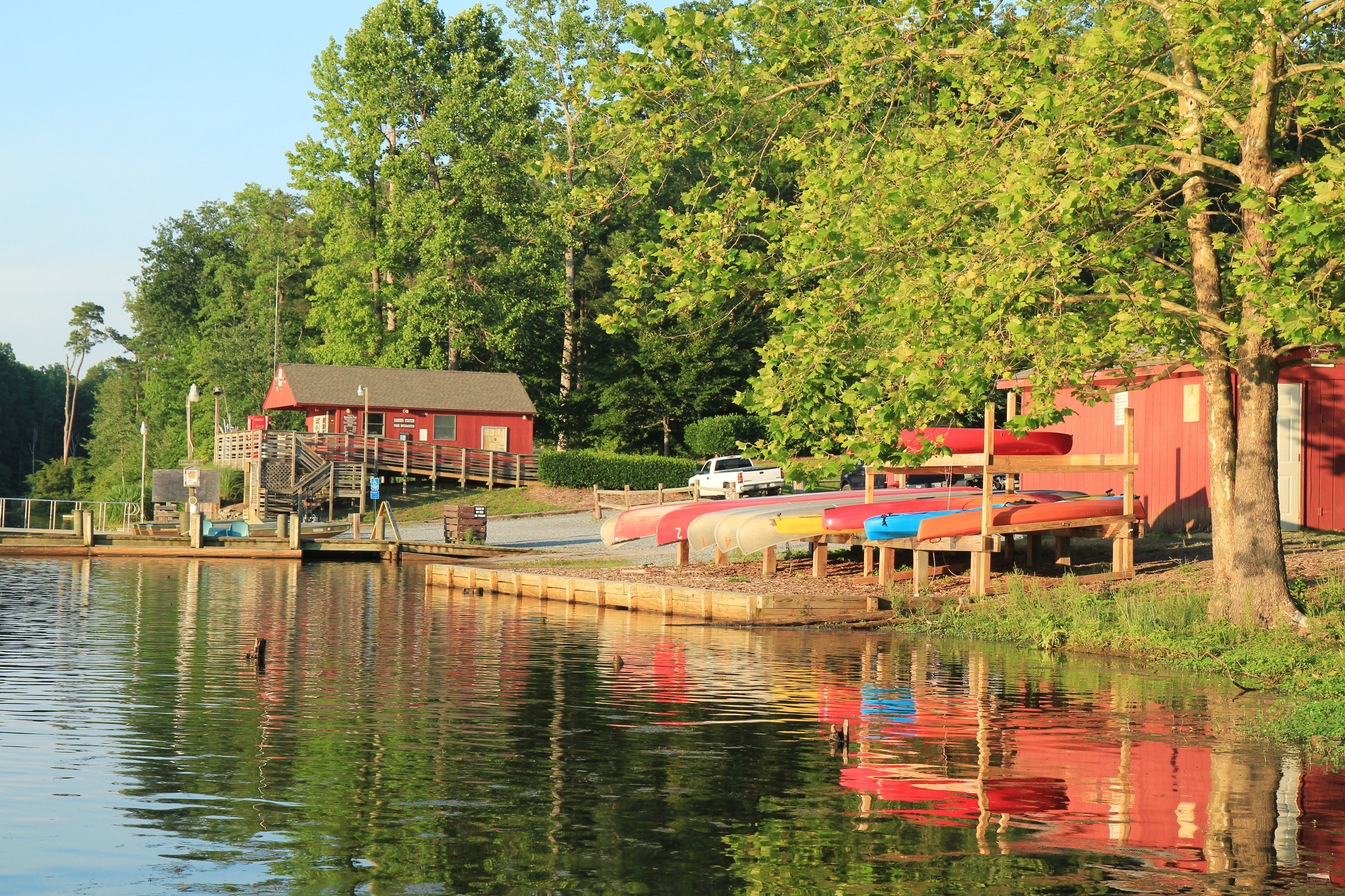 A view of Gloucester's Beaverdam Reservoir & Park near sunset.